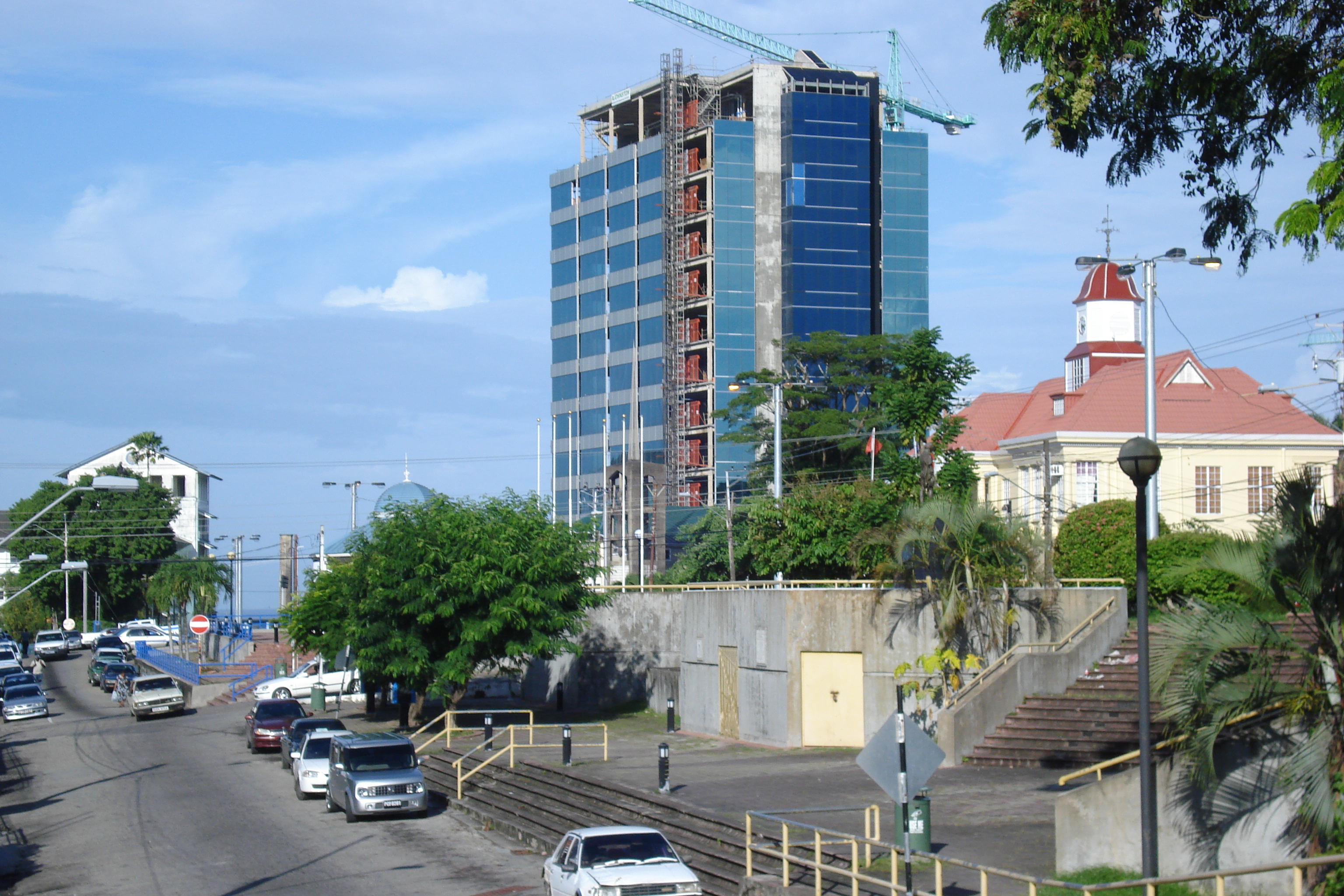 Harris Promenade in San Fernando with hospital, city hall and chancery lane office skyscraper